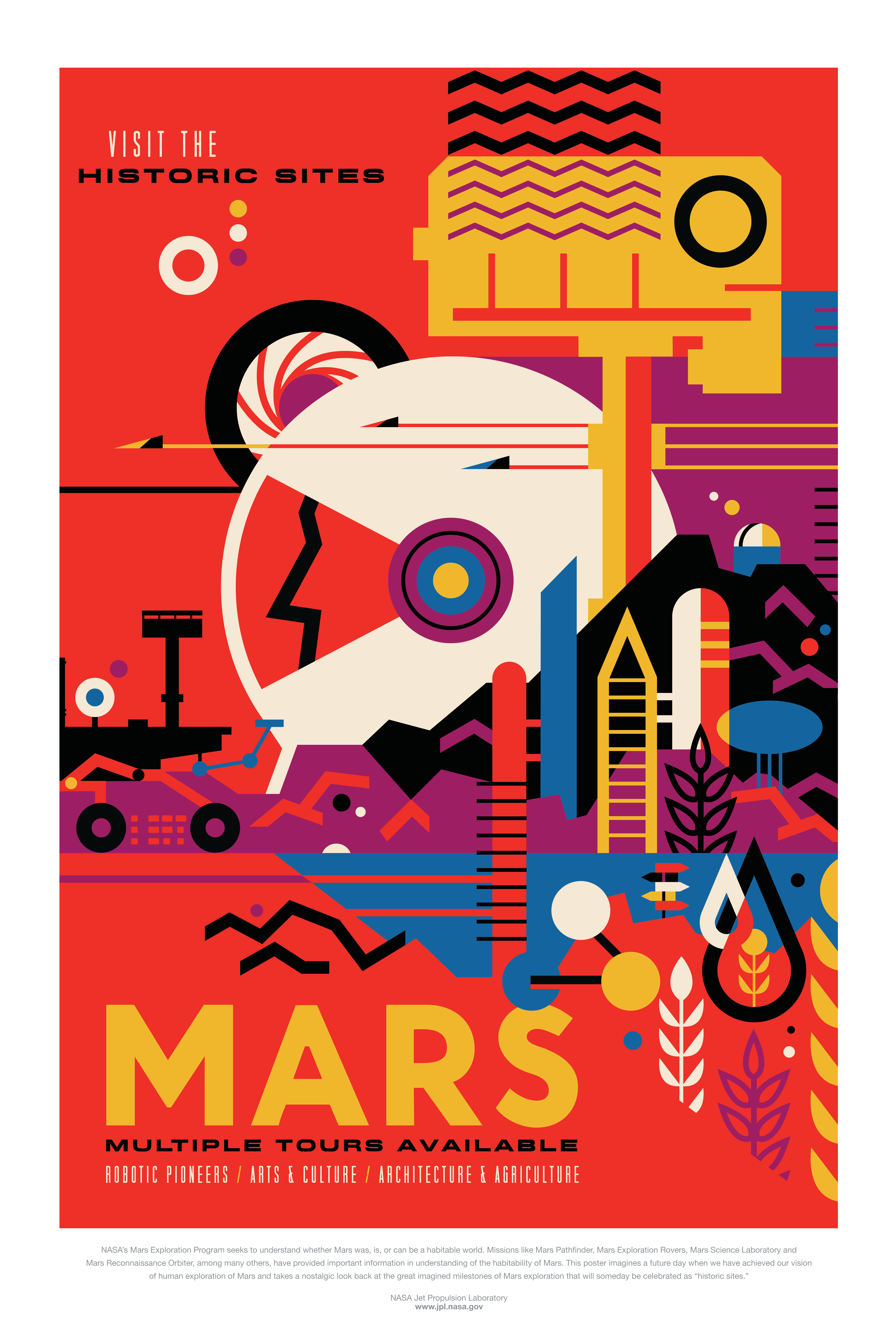 Poster for a fictional space journey to planet Mars. Inscript: «Mars. Multiple Tours Available. Robotic Pioneers. Art & Culture. Architecture & Agriculture.» / NASA's Mars Exploration Program seeks to understand whether Mars was, is, or can be a habitable world. Missions like Mars Pathfinder, Mars Exploration Rovers, Mars Science Laboratory and Mars Reconnaissance Orbiter, among many others, have provided important information in understanding of the habitability of Mars. This poster imagines a future day when we have achieved our vision of human exploration of Mars and takes a nostalgic look back at the great imagined milestones of Mars exploration that will someday be celebrated as “historic sites.”